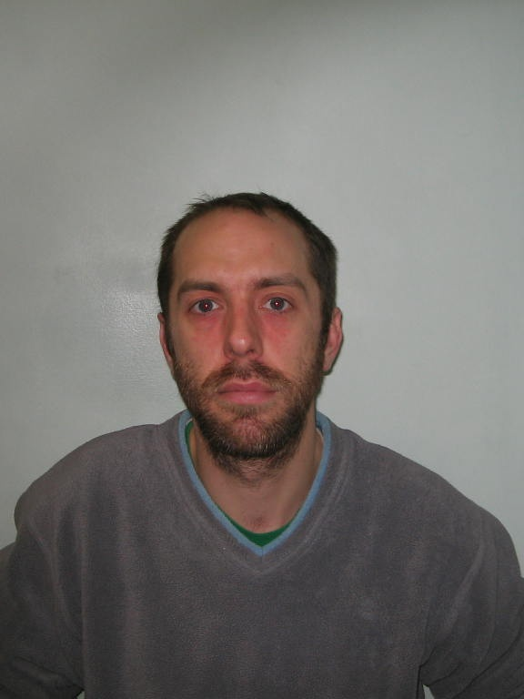 Chris Atkins, filmmaker.